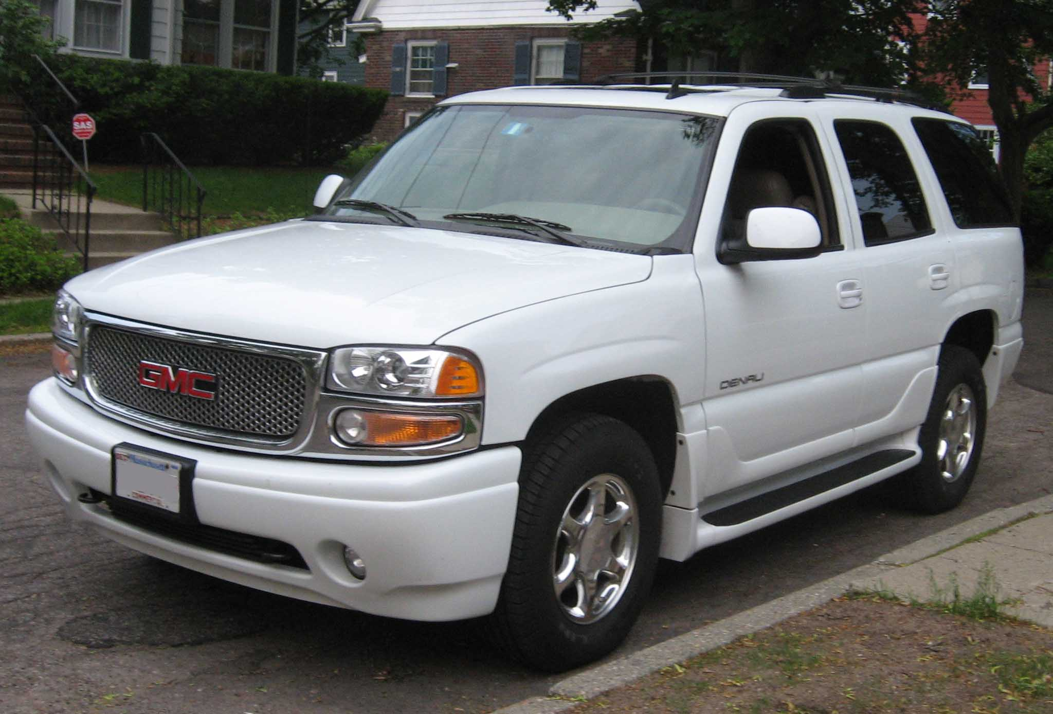 2001-2006 GMC Yukon Denali photographed in Watertown, Massachusetts, USA.